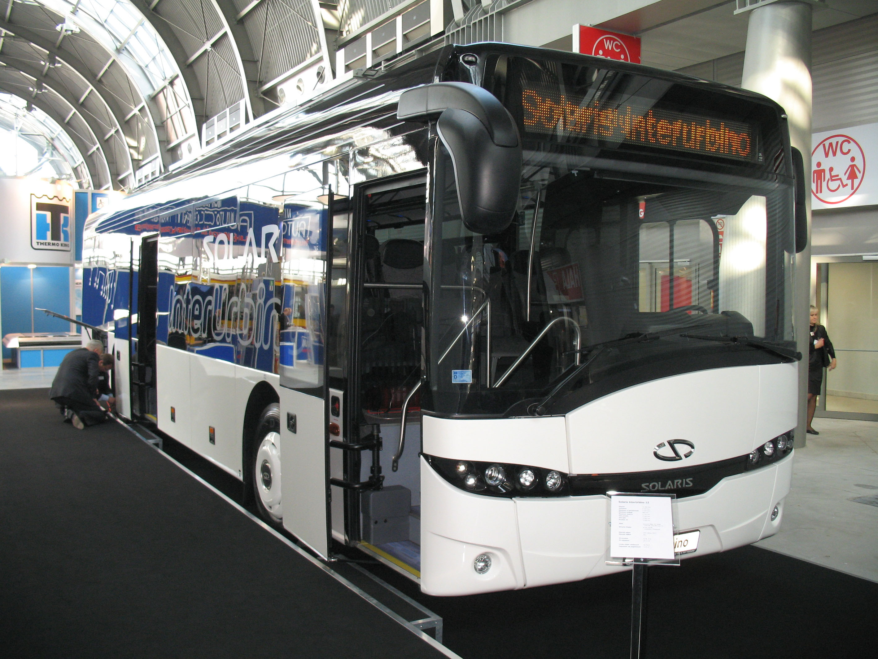 Solaris InterUrbino 12 bus in Kielce, Poland. Built 2010. Transexpo 2010.